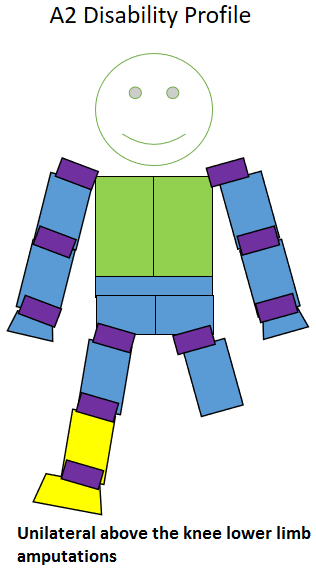 Amputee sport related classification illustration using the ISOD/IWAS classification system.